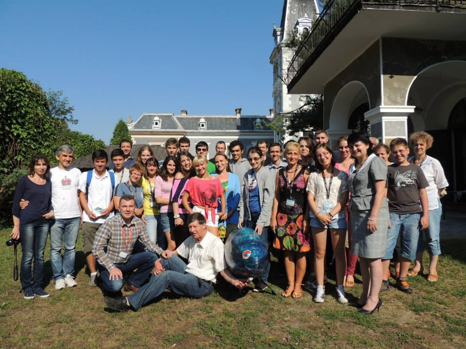 Group photo of the participants at "Informatics at the Castle" Free Software Summer School, 2013 - Cernovici castle in Macea, Arad County, Romania